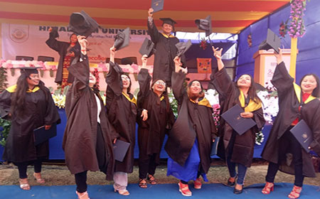 Himalayan University had conducted its 2nd Convocation on 21-Feb-2020 at Jollang Campus Itanagar.